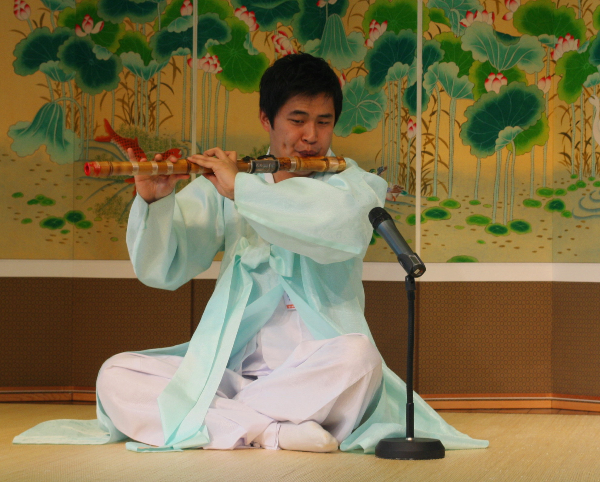 Korea culture center at Incheon Airport